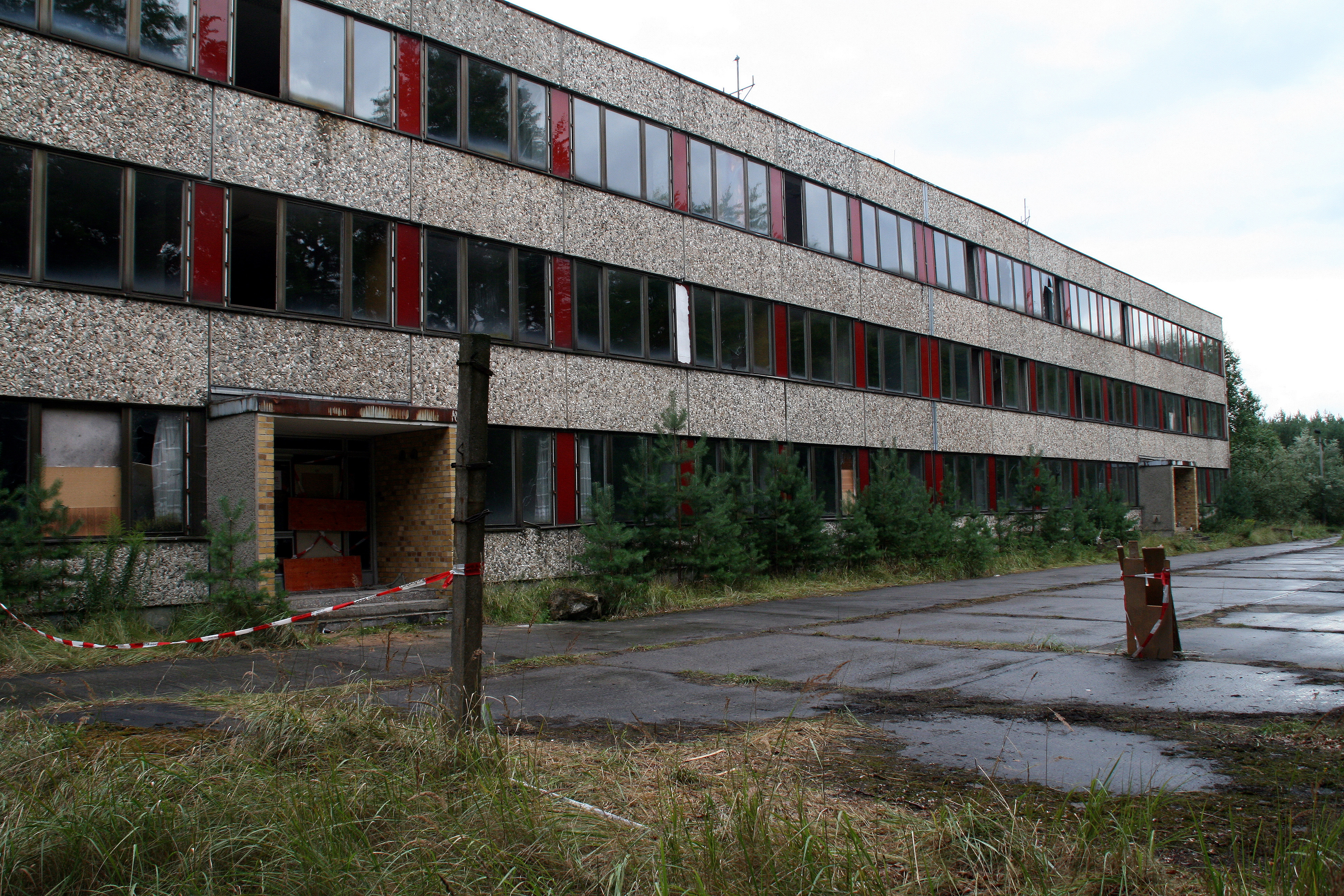 Headquarters building with access to the Honecker bunker